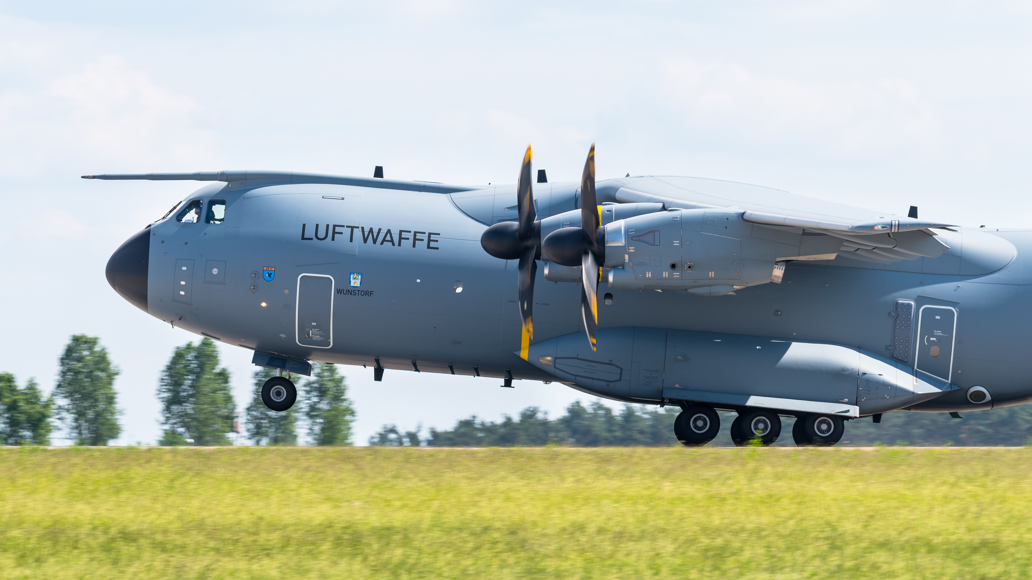 German Air Force Airbus A400M (reg. 54+01, cn 018) at ILA Berlin Air Show 2016.